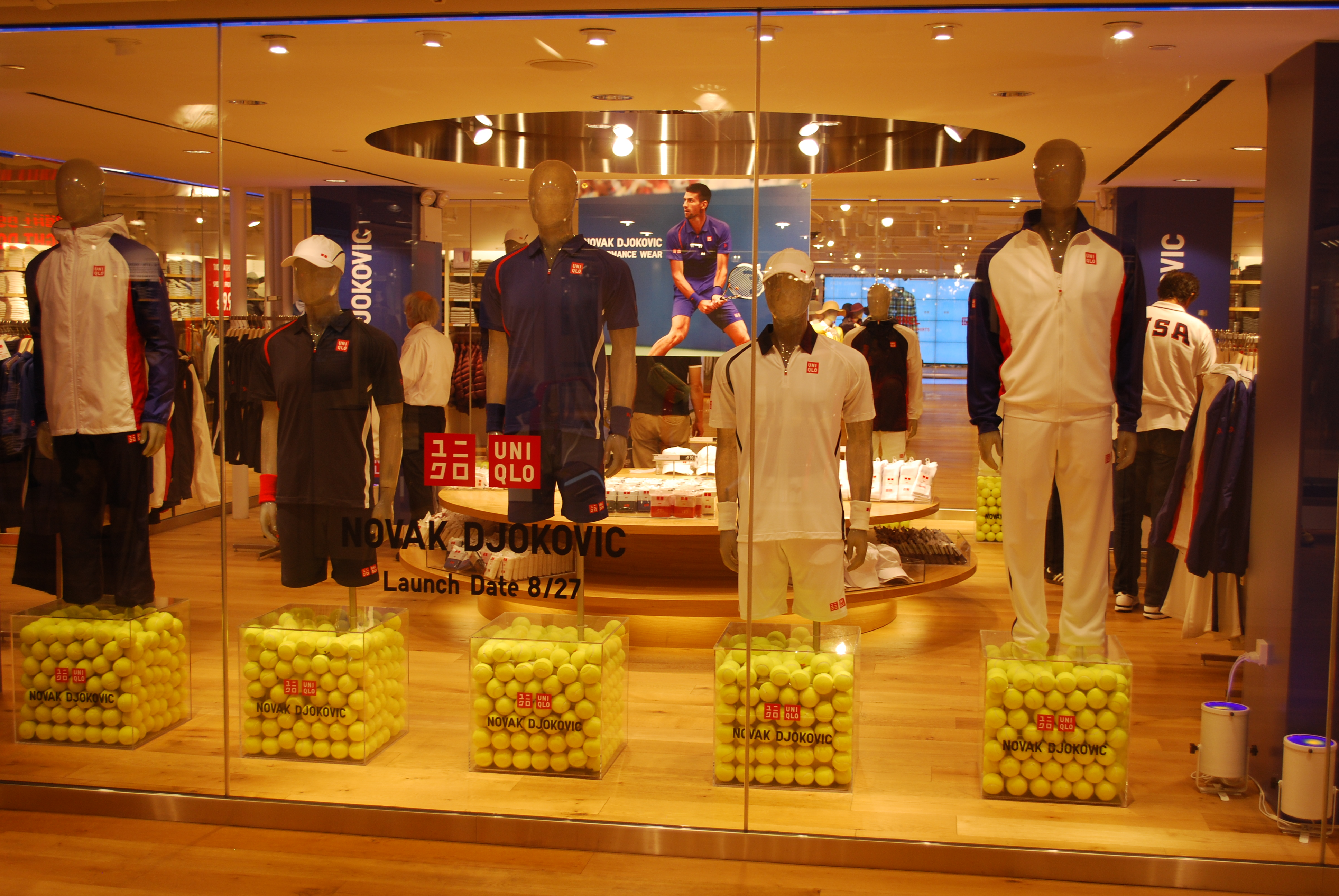 Sports store in New York with Novak Đoković equipments during US Open